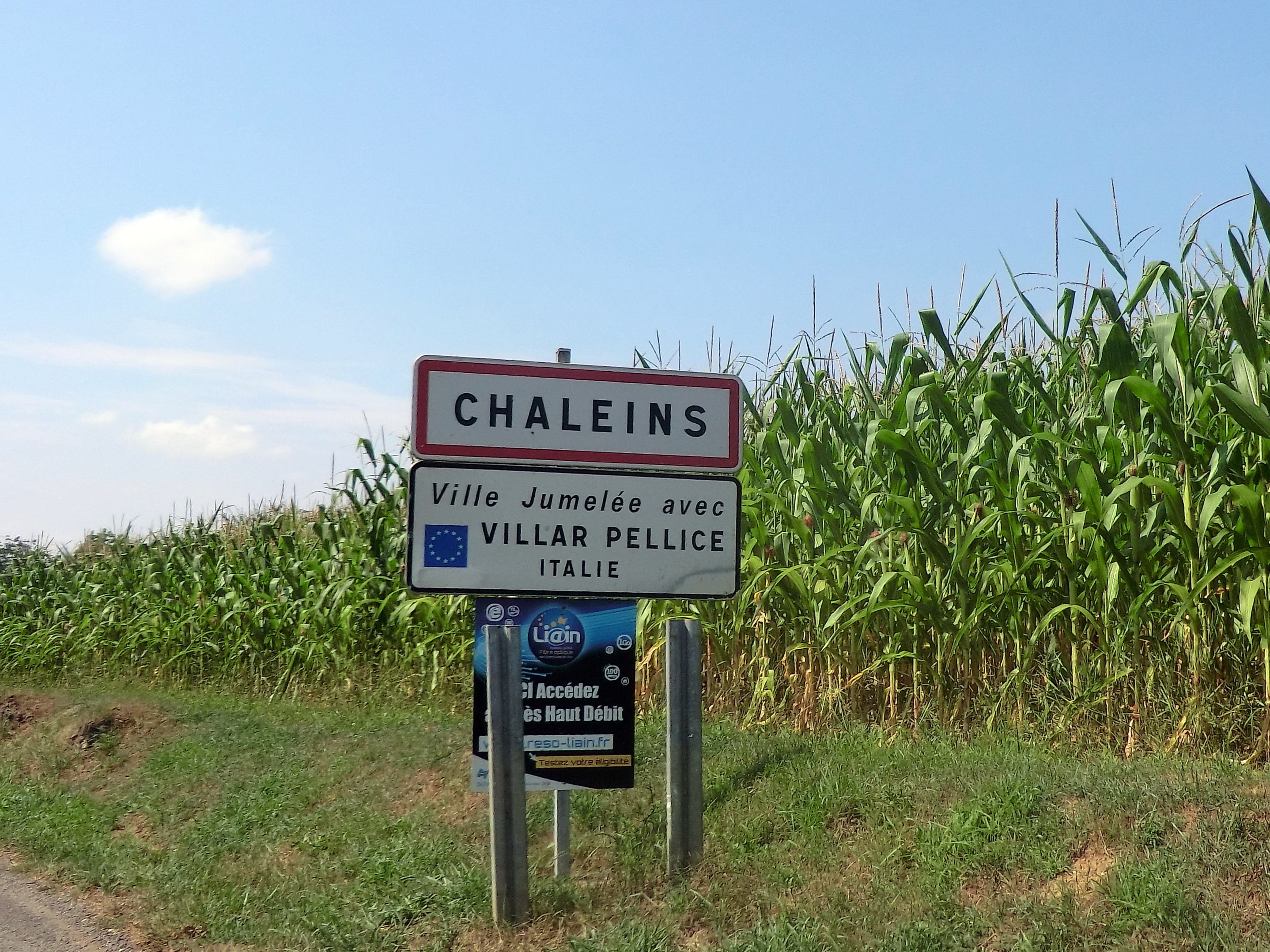 Image of Chaleins.